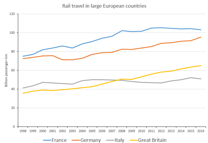 Passenger-km in large European countries from 1998-2016[1]